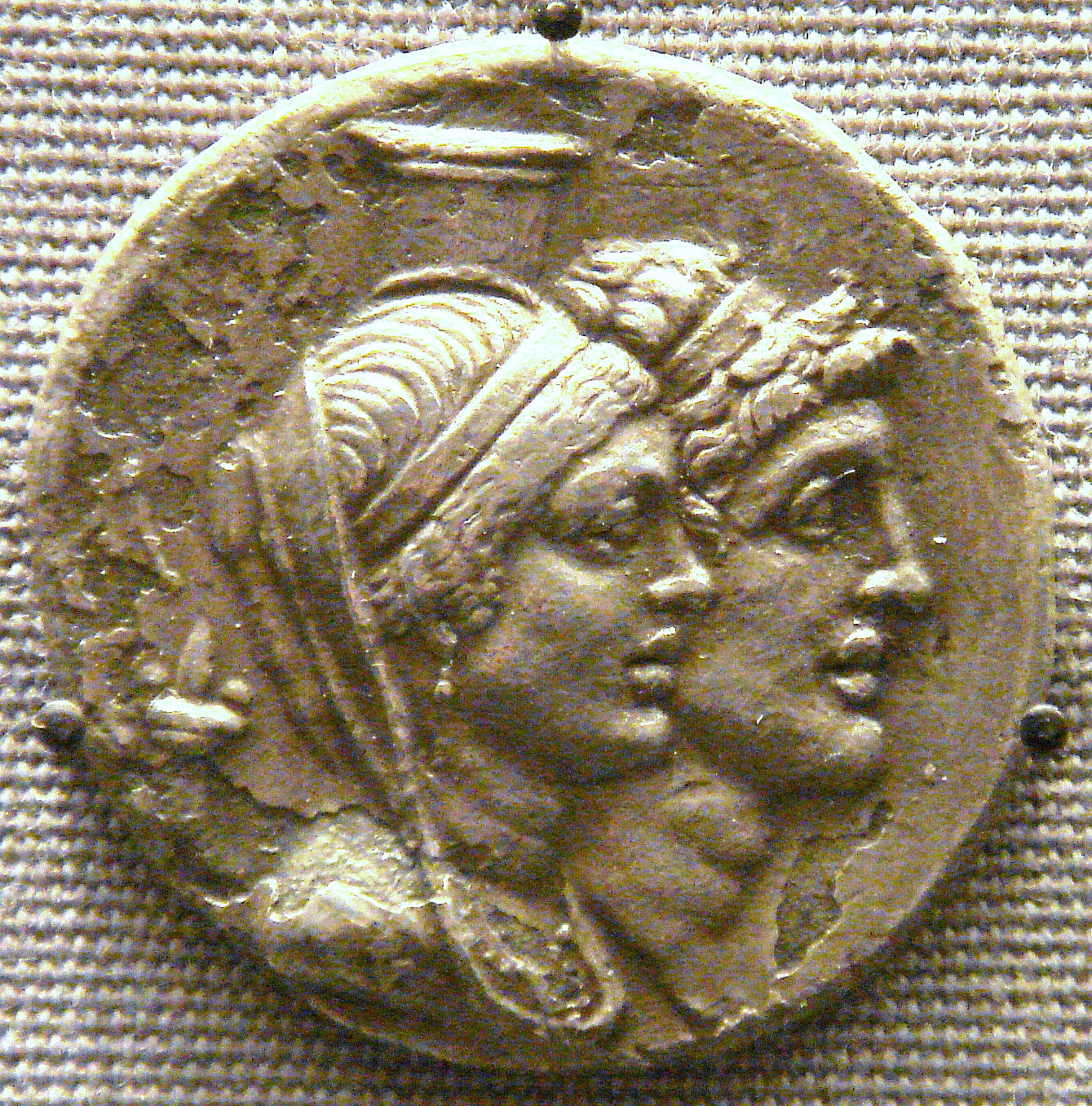 Alexander_I_Balas_and_Kleopatra_Thea.